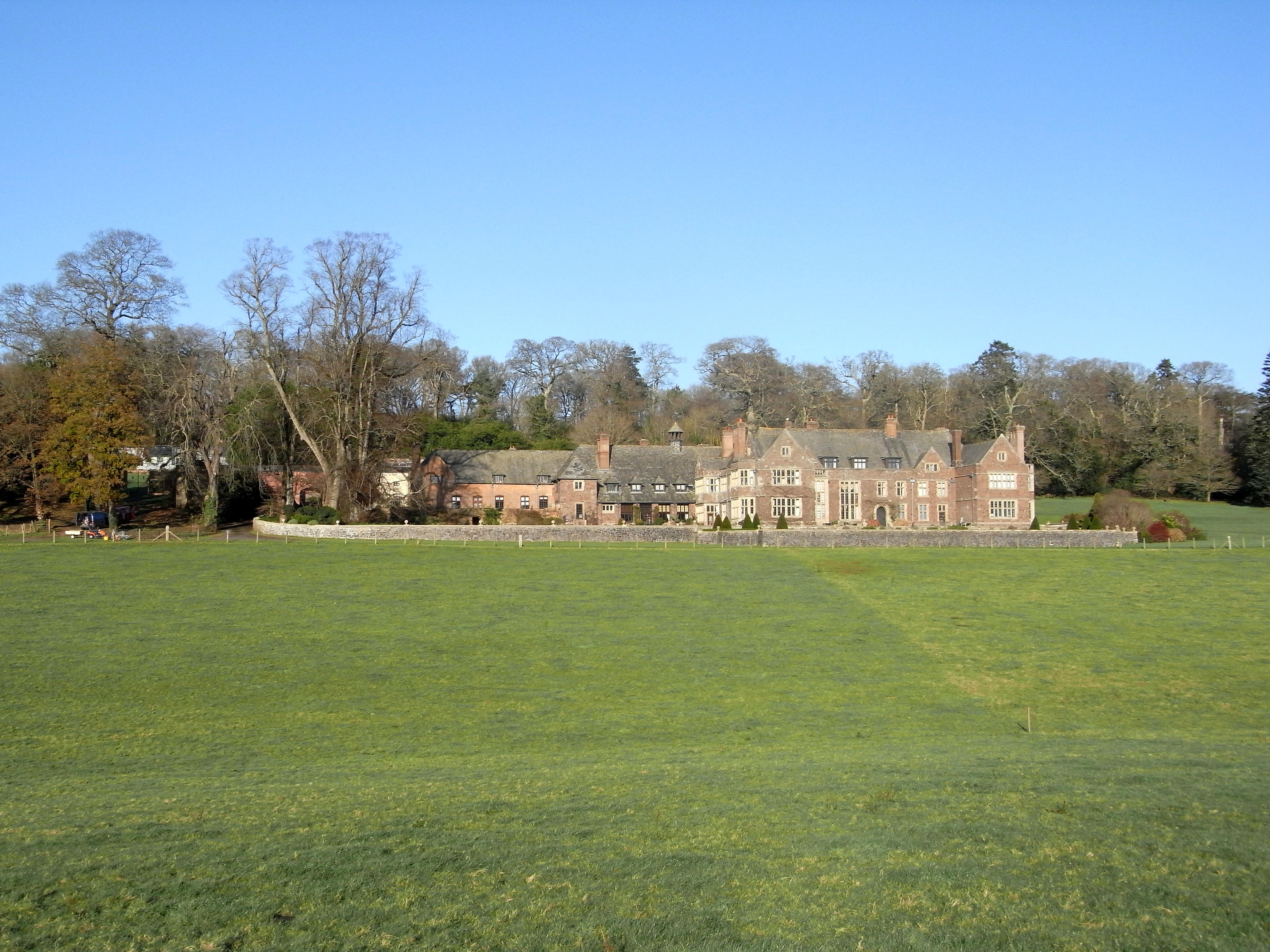 Creedy House in the parish of Sandford, Devon